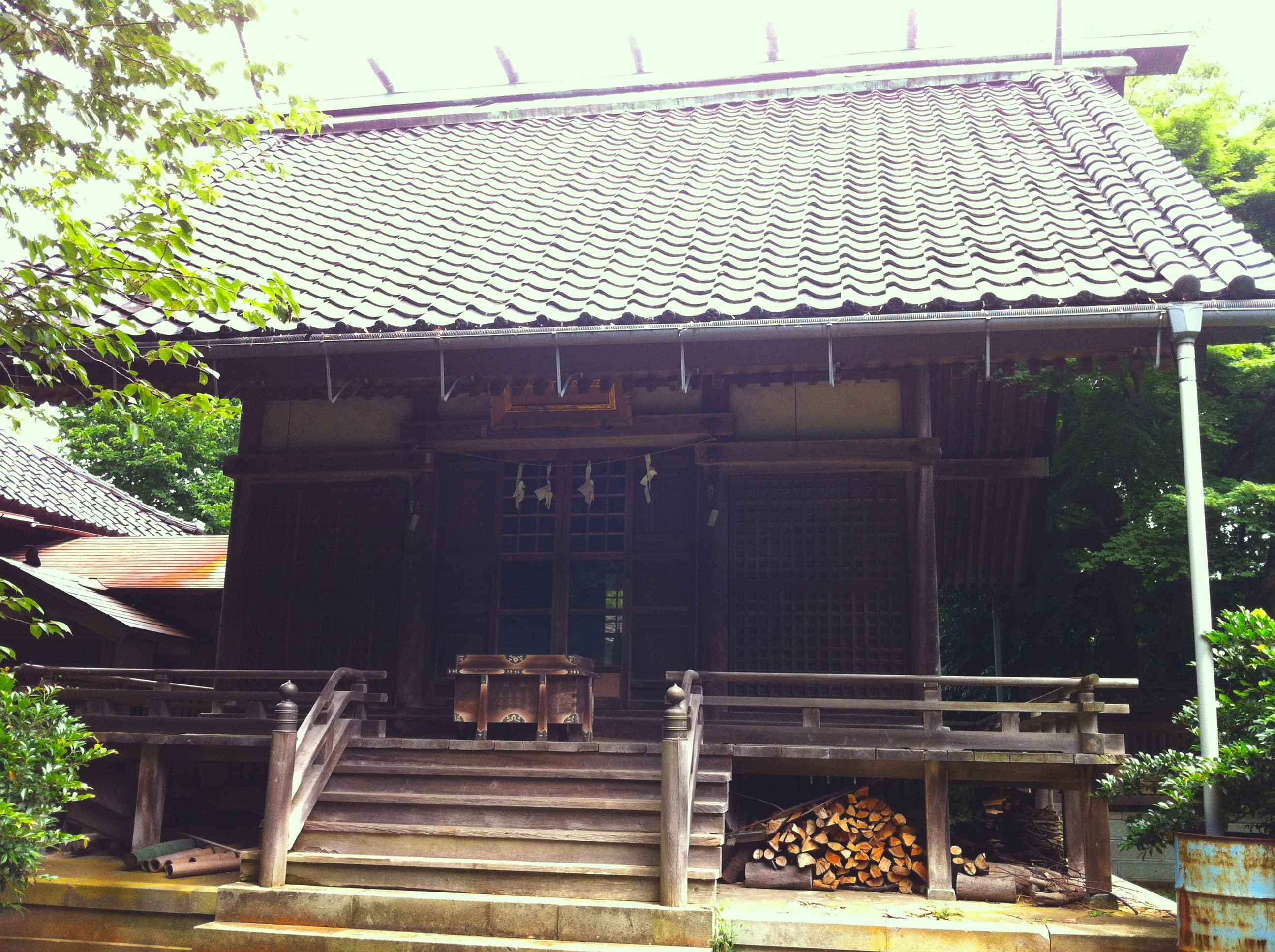 Toyokuni Shrine (豊国神社 Toyokuni-jinja?) is a Shinto shrine located on Mount Utatsu in Higashi-Mikage-machi, Kanazawa, Ishikawa Prefecture, Japan. Under the former shrine ranking system, it was listed as a village shrine.